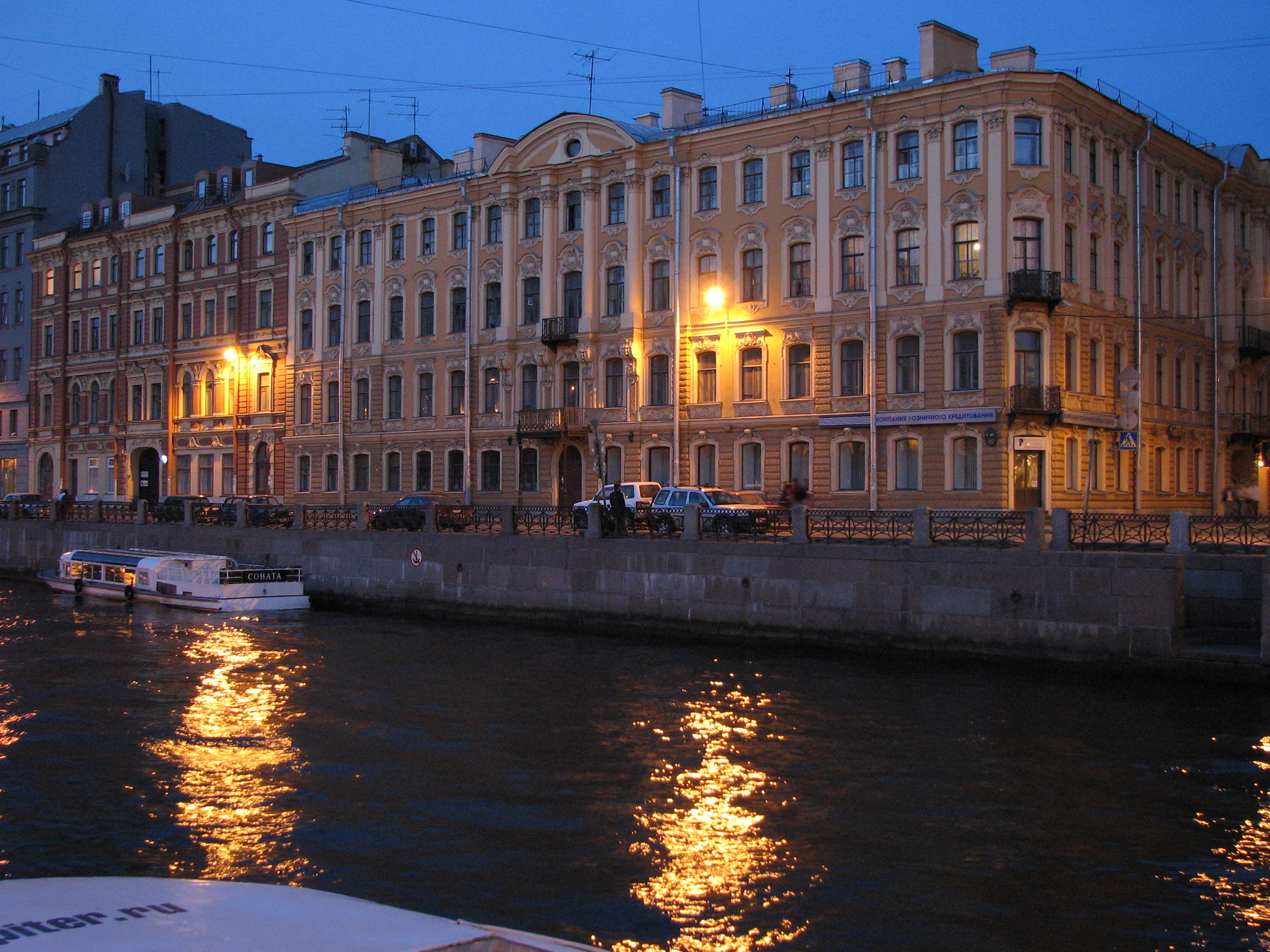 Saint Petersburg. White nights. Moika Embankment.